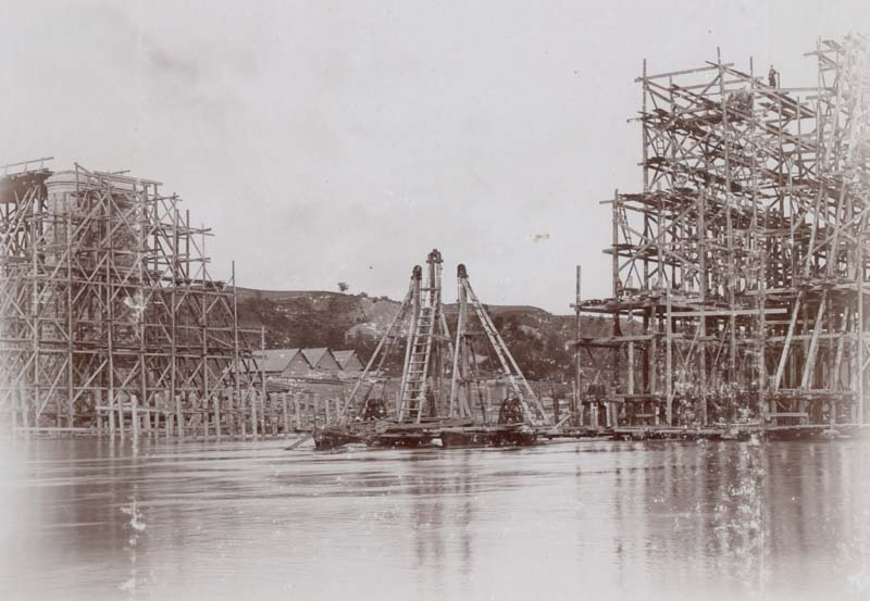 Construction works on a railway bridge across the Neman River close to Olita. The bridge was designed as part of the Transneman Railroad by Nikolai Belelyubsky and built by the K. Rudzki i S-ka company between 1898 and 1899. Blown up by the Russians in 1915, it has not been rebuilt since.